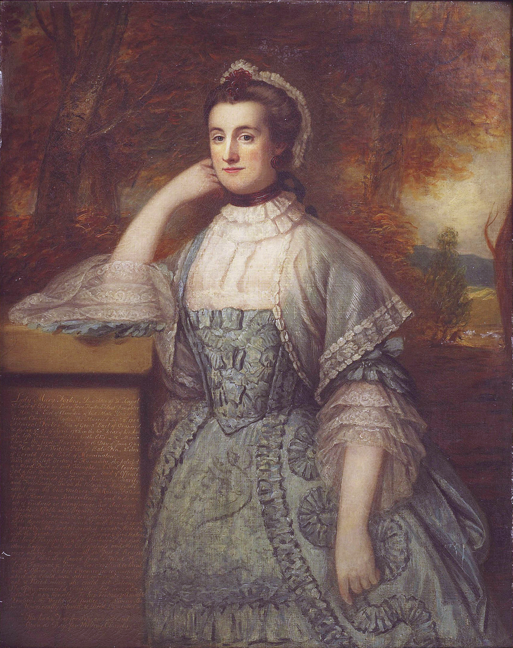 Mary Forbes (1722-1782) oil on canvas 127 x 101.5 cm inscribed on the column: a biography of the sitter